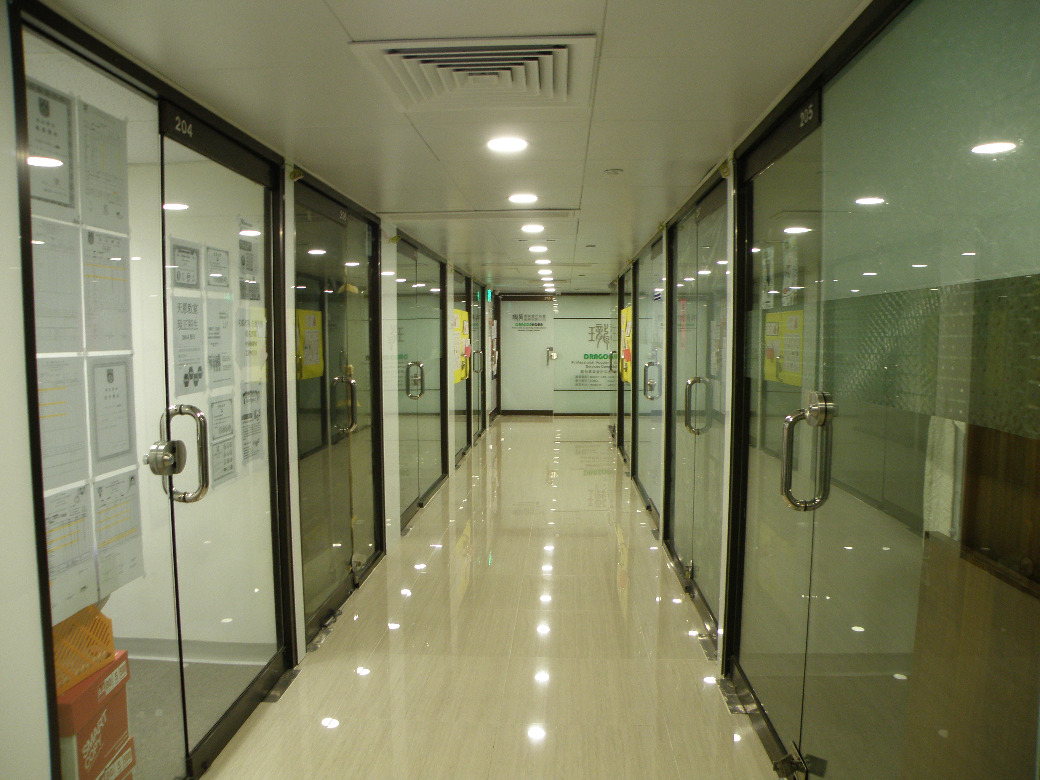 Soho West Serviced Office in Sham Shui Po, Hong Kong.